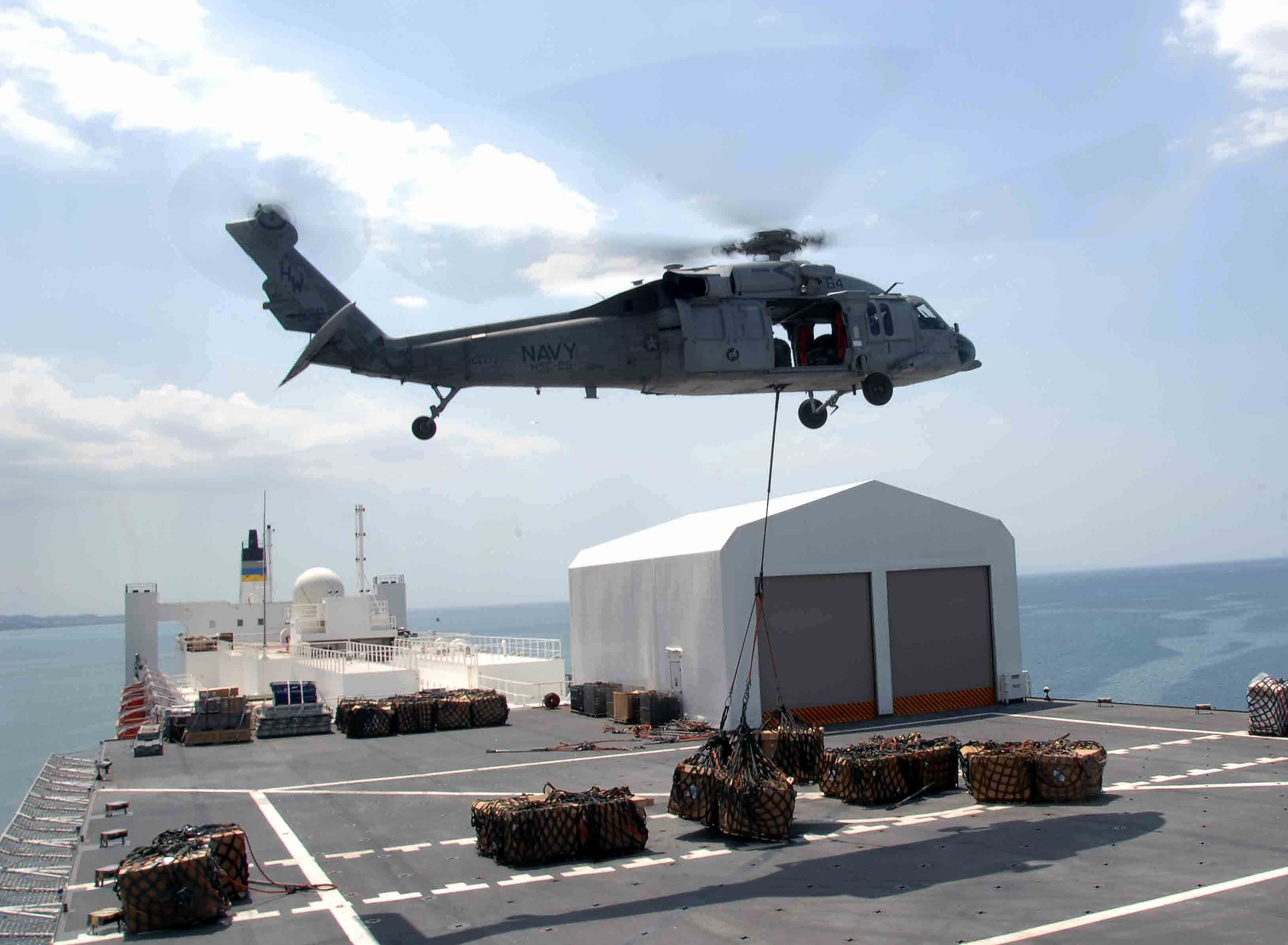 PORT-AU-PRINCE (April 14, 2009) An MH-60S Sea Hawk helicopter from Helicopter Sea Combat Squadron Two Six carries one of the 333 loads of cargo from the Military Sealift Command hospital ship USNS Comfort (T-AH 20) as the ship is anchored offshore near Port-Au-Prince. Comfort is deployed to Latin America and the Caribbean region as part of the four-month humanitarian and civic assistance mission Continuing Promise 2009. (U.S. Army photo by Spc. Eric J. Cullen/Released)